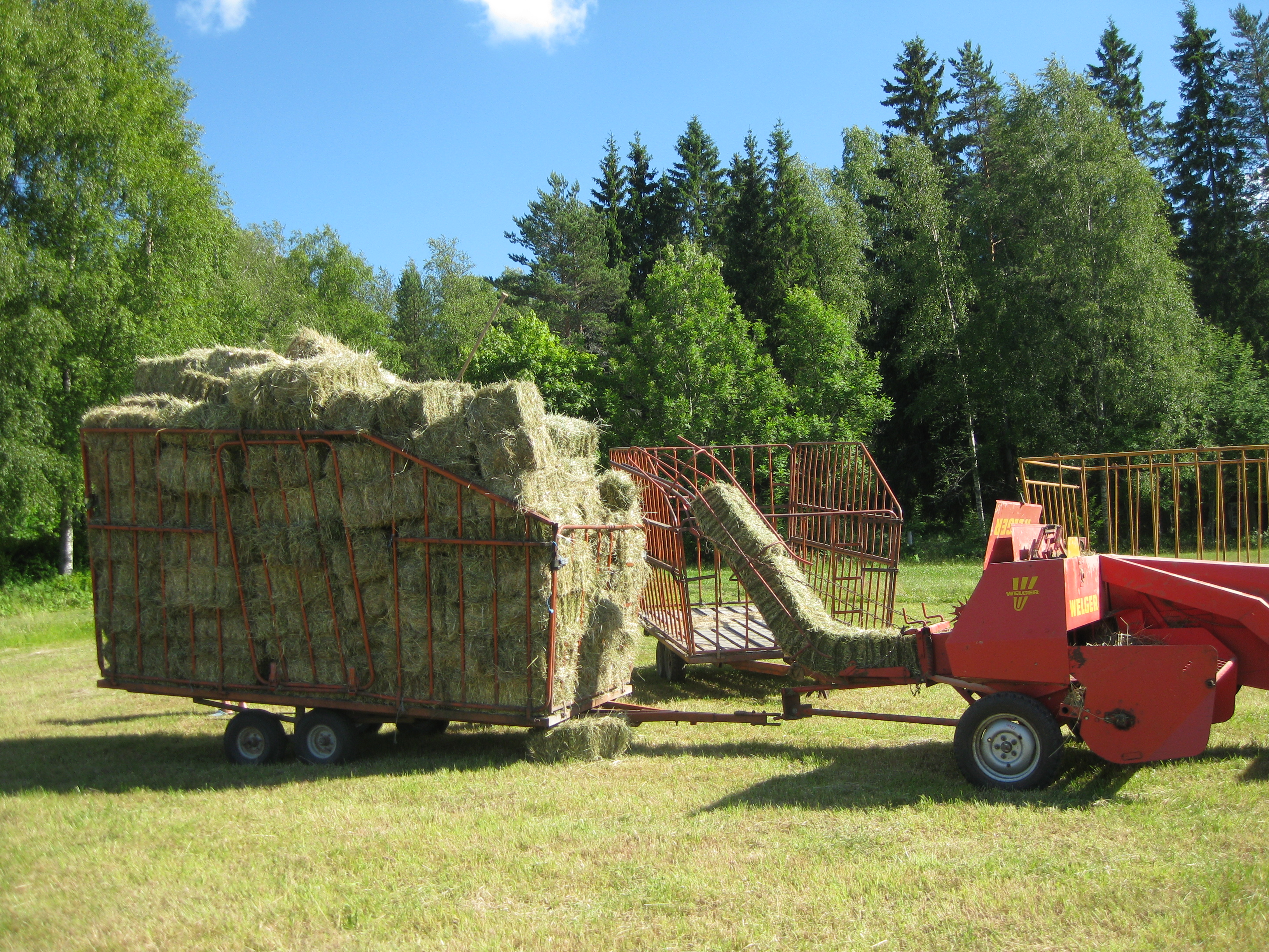 A fully loaded Gisebo hay bale wagon after a Welger AP41 small square baler. Two empty bale wagons in the background.